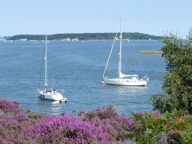 View across Poole Harbour. Taken from near to Shipstal Point on the RSPB Arne reserve and looking towards Brownsea Island.